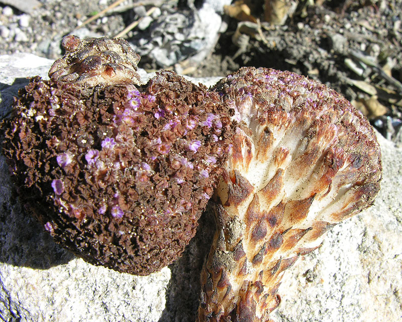 A top and side view of this Pop-up parasite known as Flor de Arena. From near Ejutla, Oaxaca, Mexico. In context at